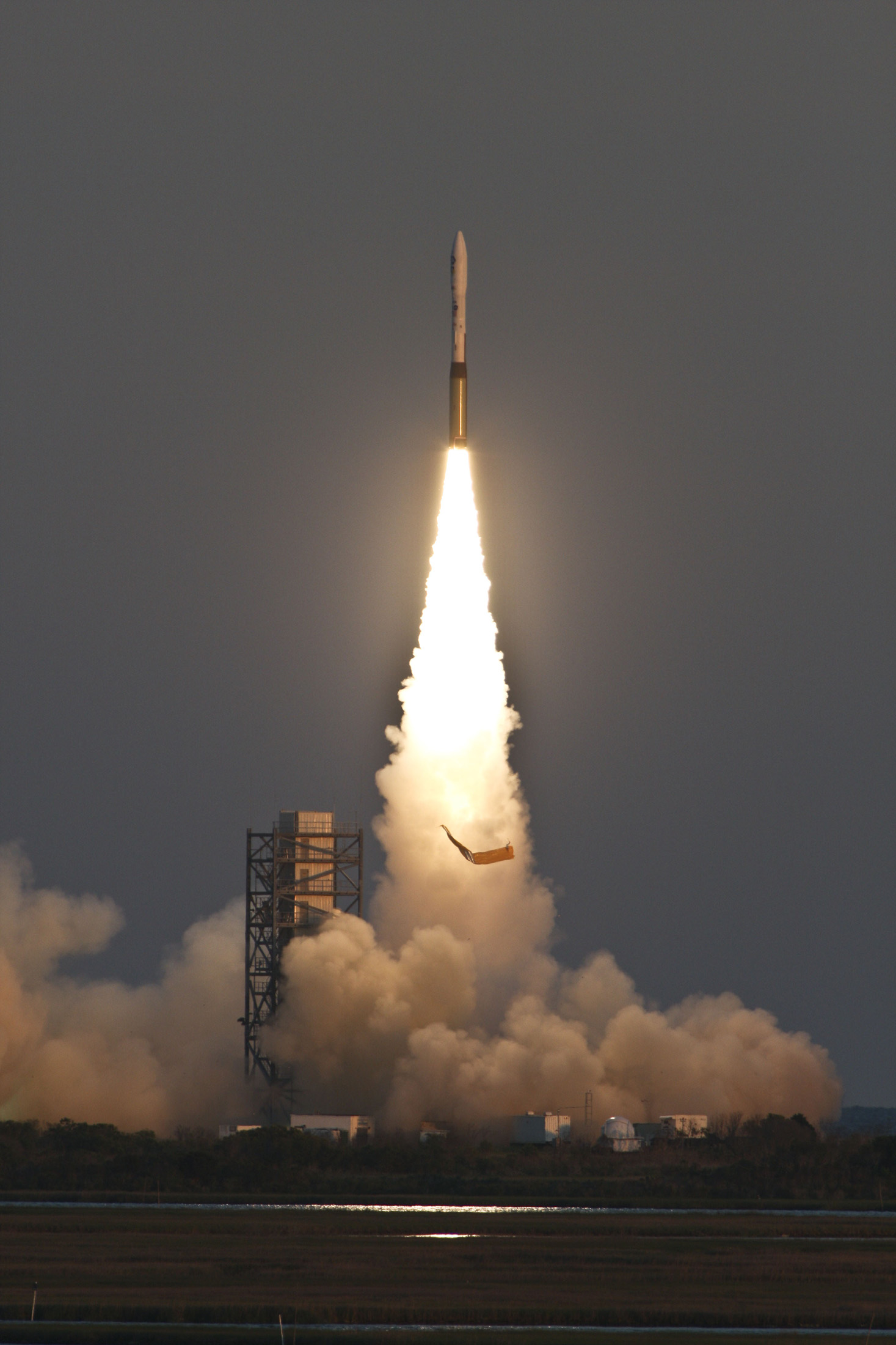 Launch of TacSat-3 aboard a Minotaur I rocket